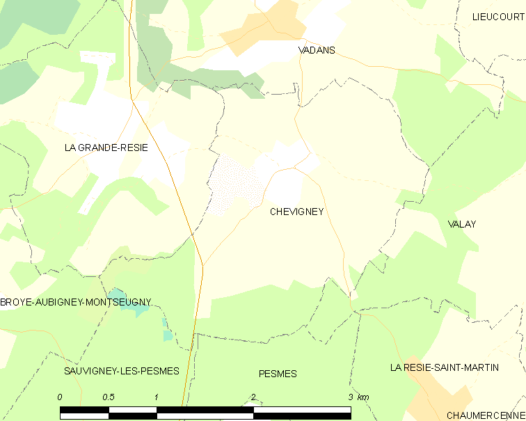 Map of French municipality